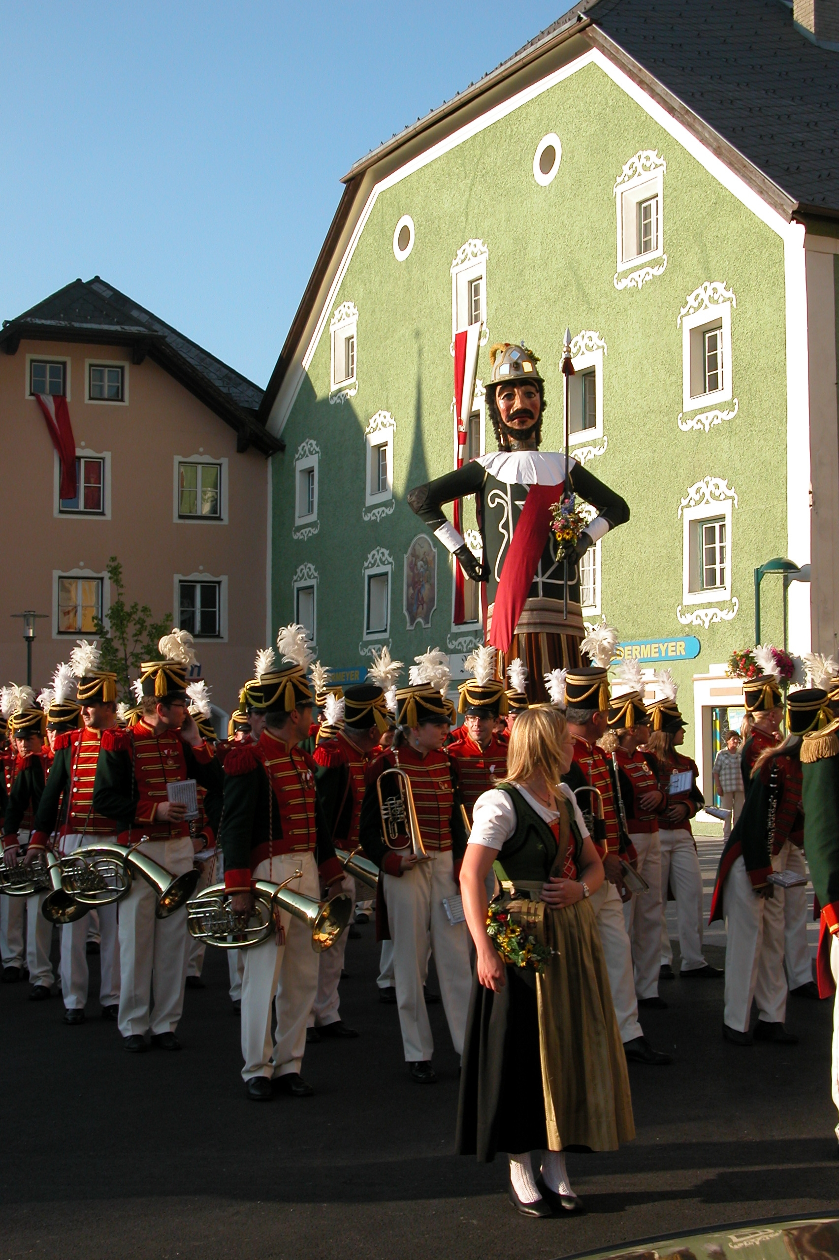 Giant Samson from Tamsweg